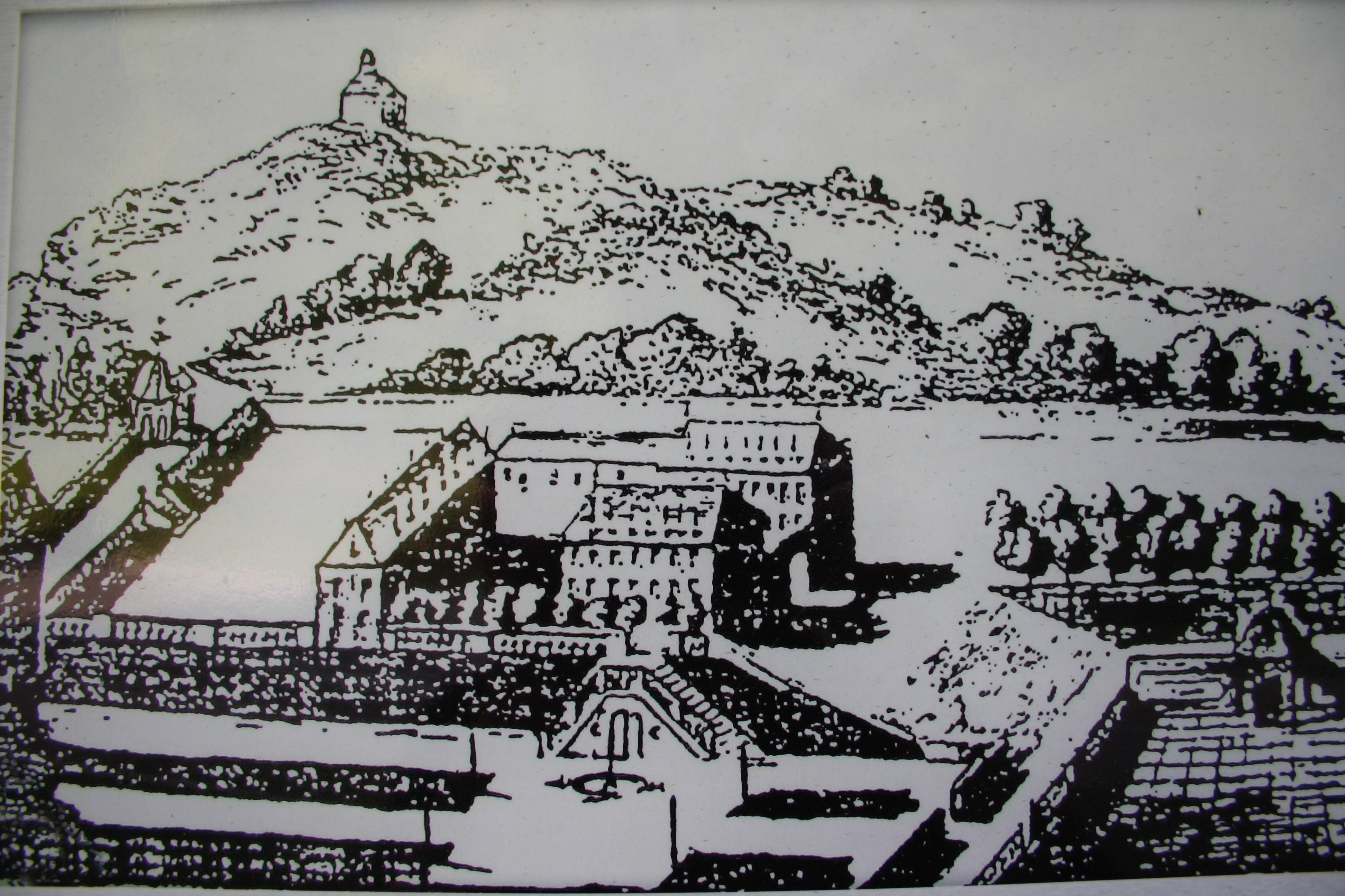 Drawing of the former electoral palace (electorate of cologne, 1760)